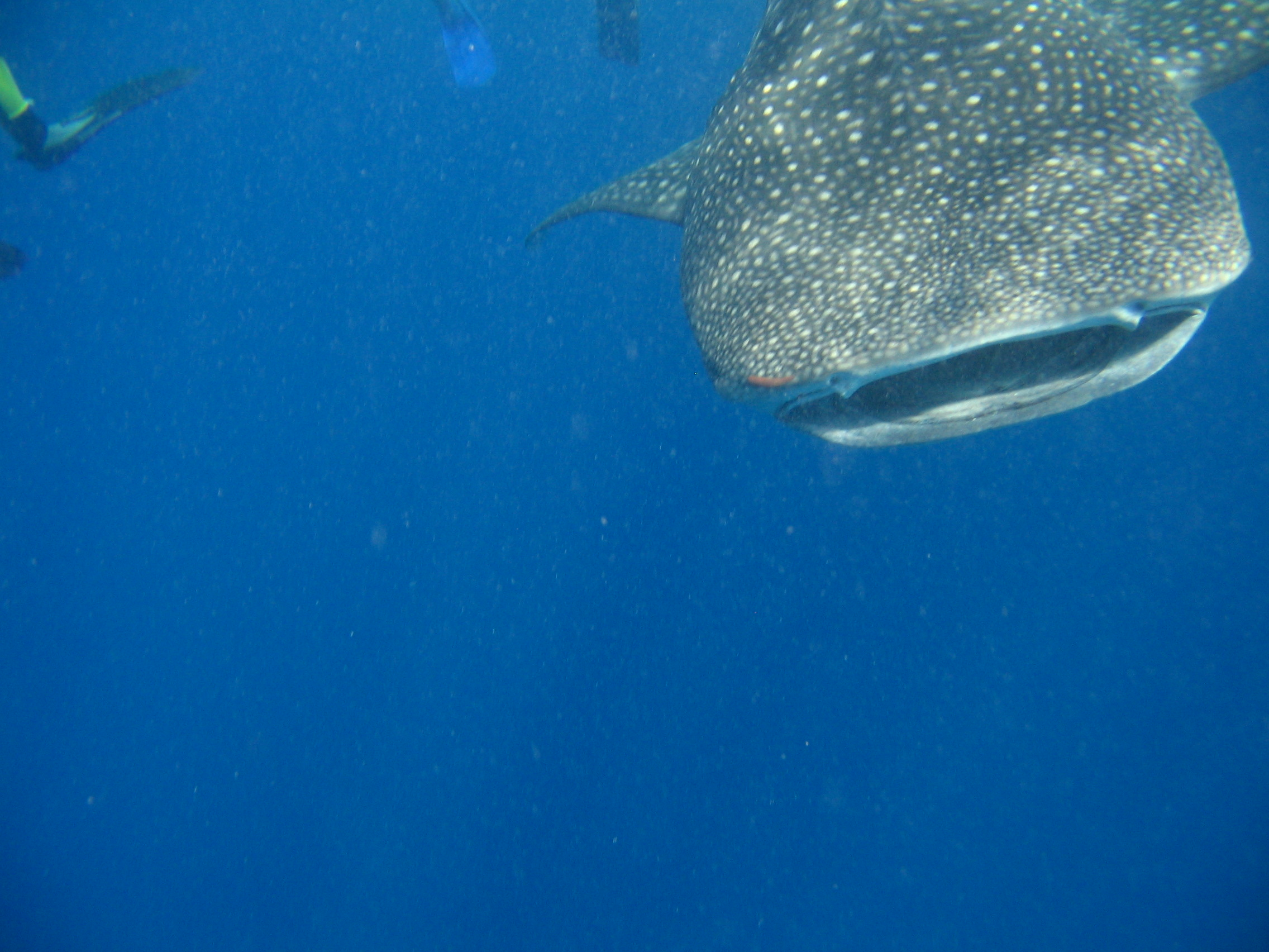 whale shark